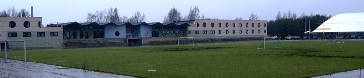 Viimsi Staadion, taken with nokia n95